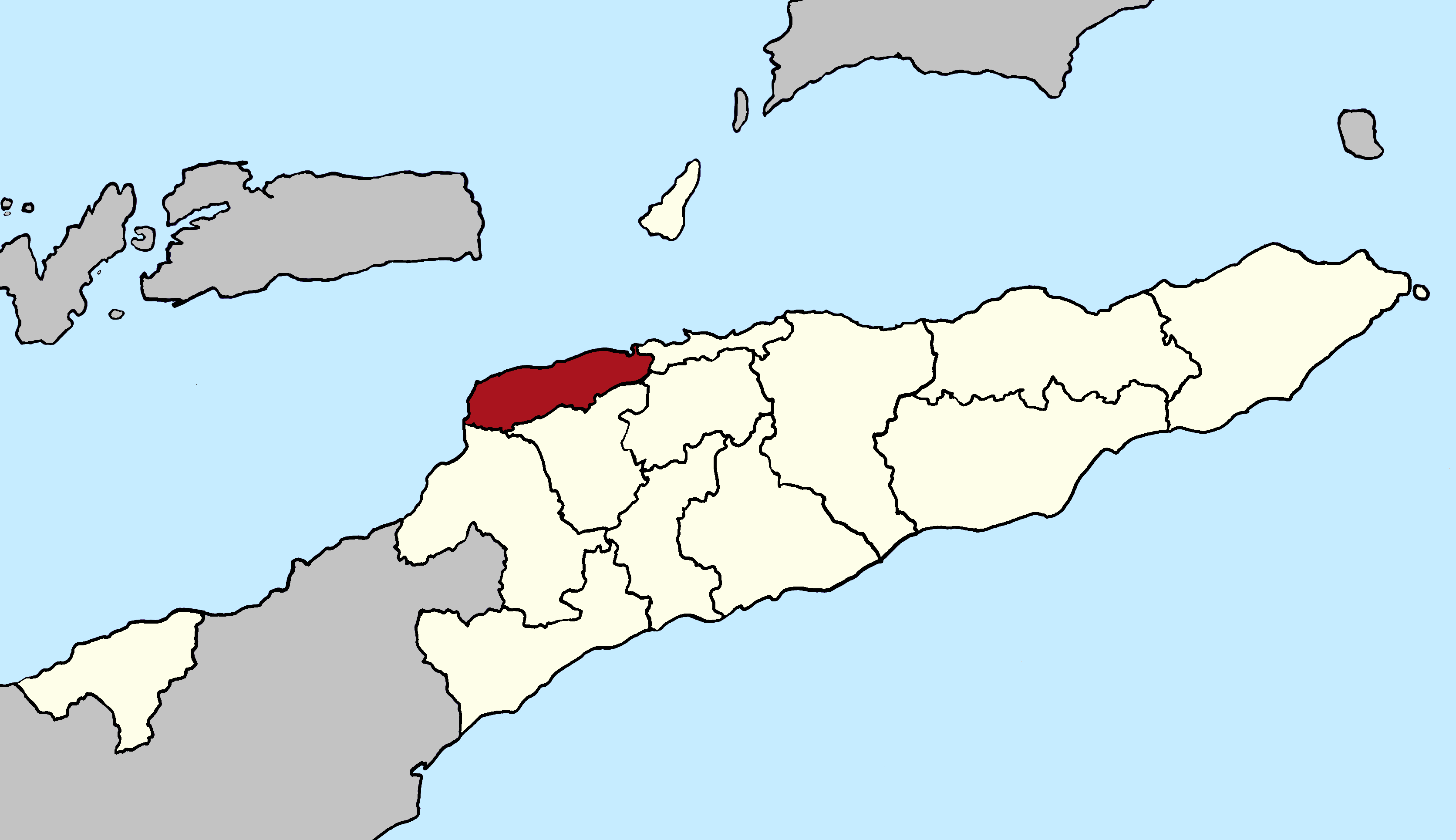 Locator map of Liquiçá municipality since 2015, East Timor